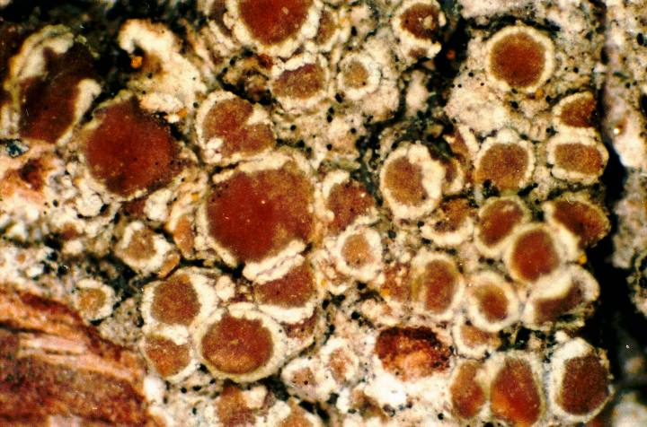 Lecanora expallens Ach., 1810 [Syn. Lecanora conizaea (Ach.) Nyl., 1872] (photograph of a herbarium specimen taken through a dissecting microscope, x37) Growing on the trunk of Black Locust tree beside St. Mary's River at Chancellor Point, S of St. Mary's City, St. Mary's County, Maryland, USA; collected by A. Norden and B. Ball (No. 501, 1 Jun 1973), identified by Allen C. Skorepa; specimen is now in the Lichen Herbarium of the New York Botanical Garden.